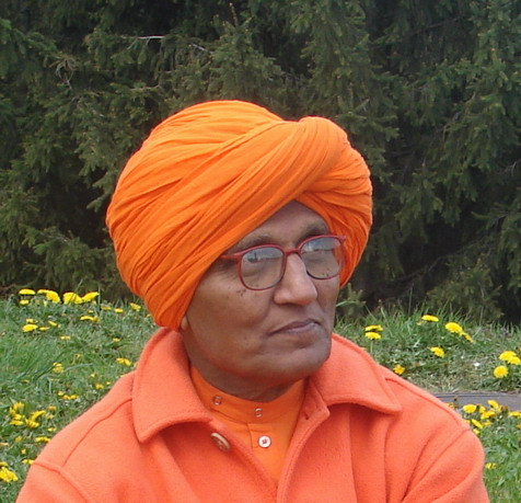 Swami Agnivesh